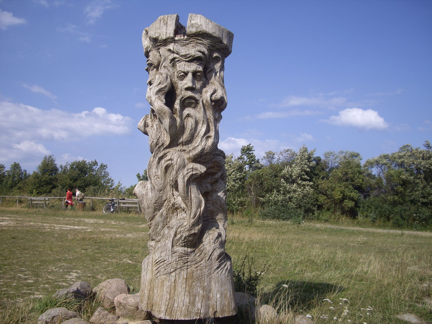 Svantevit-statue made by Marius Grusas at the cape Arkona on the island Rügen (reproduction)